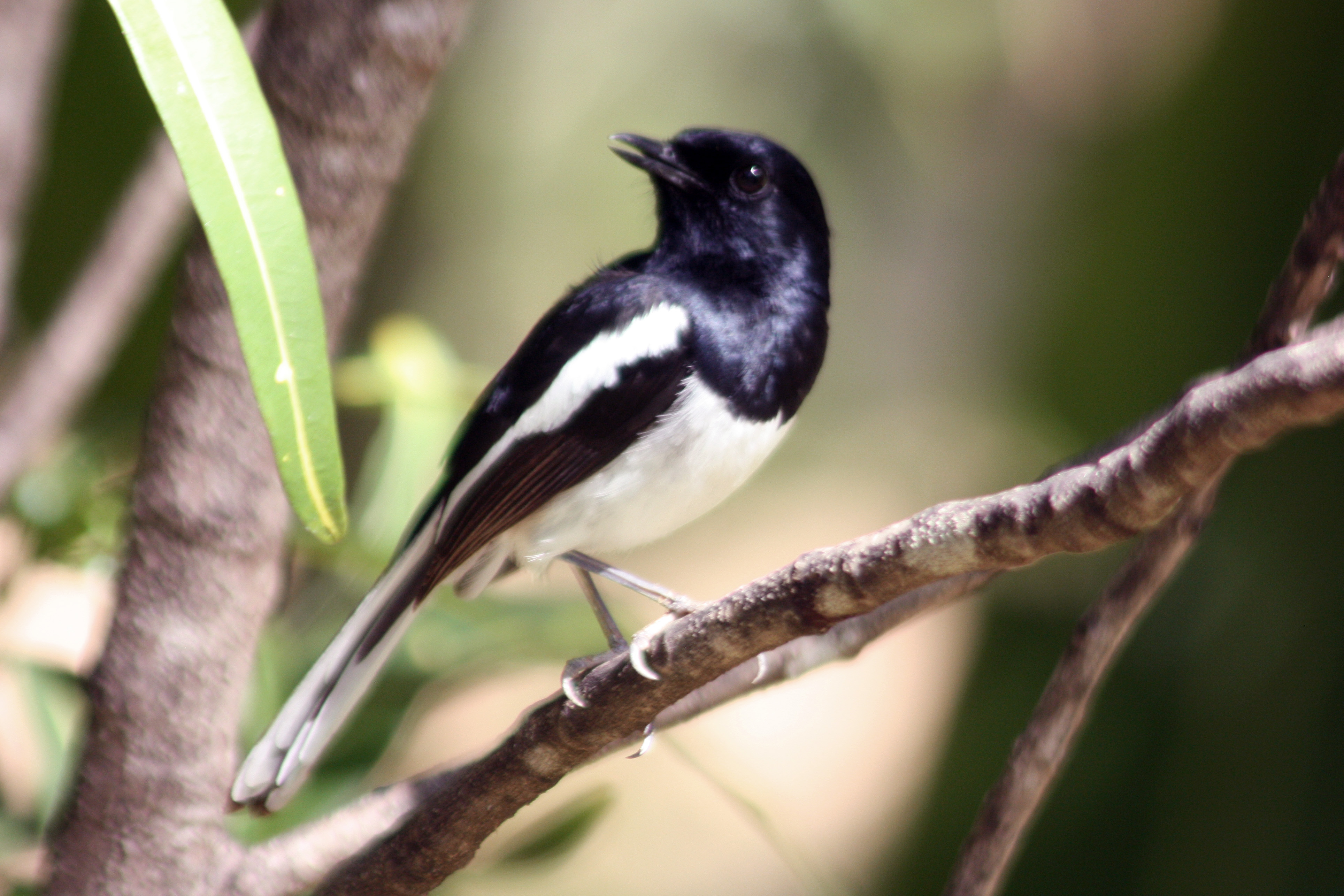 Male Madagascar magpie-robin (copsychus albospecularis) in Anjajavy Forest, Madagascar